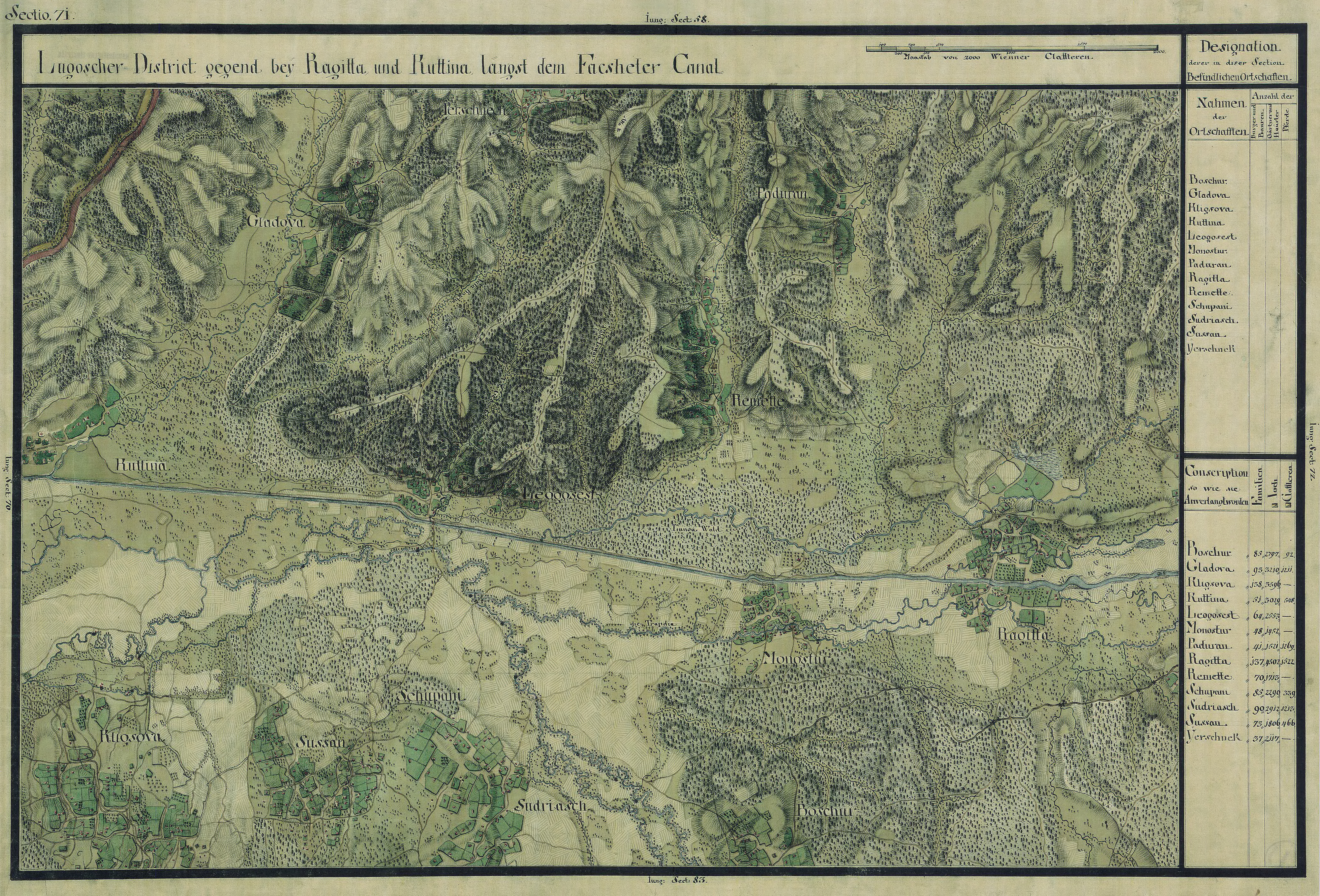 The Banat region in the cadastral maps: Josephinische Landesaufnahme, 1769-72. Josephinische Landaufnahme pg071